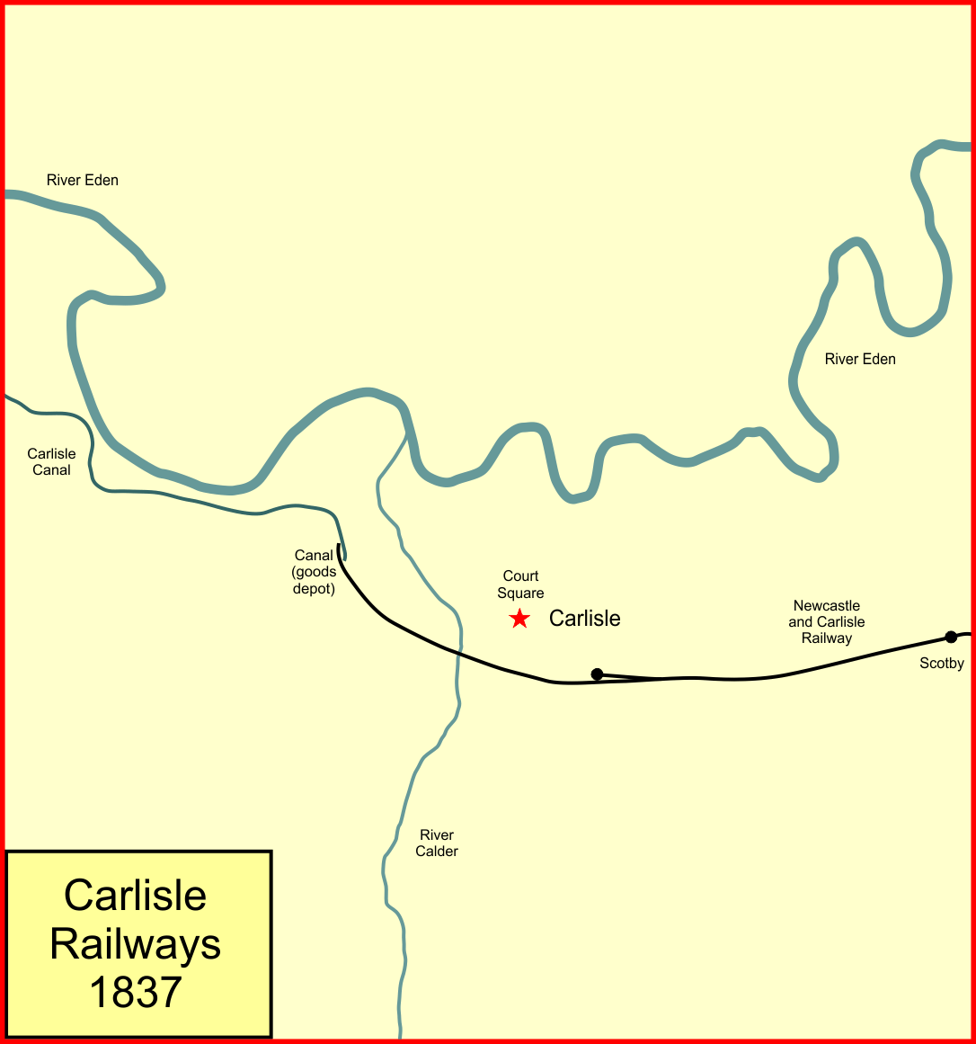 Railways of Carlisle, England, in 1837